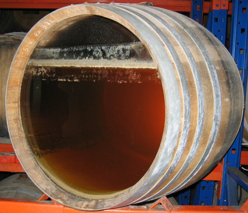 Barrel of fermenting Vin jaune with a cutaway view showing its characteristic yeast film covering called voile, similar to Sherry's "flor", at Fruitiere vinicole d'Arbois